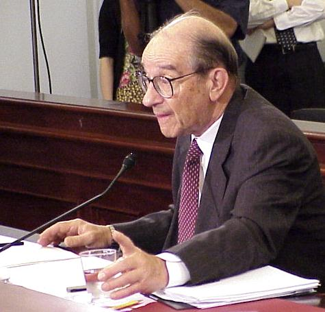 The Honourable Mr. Greenspan testifies before the House Committee, 09/08/04